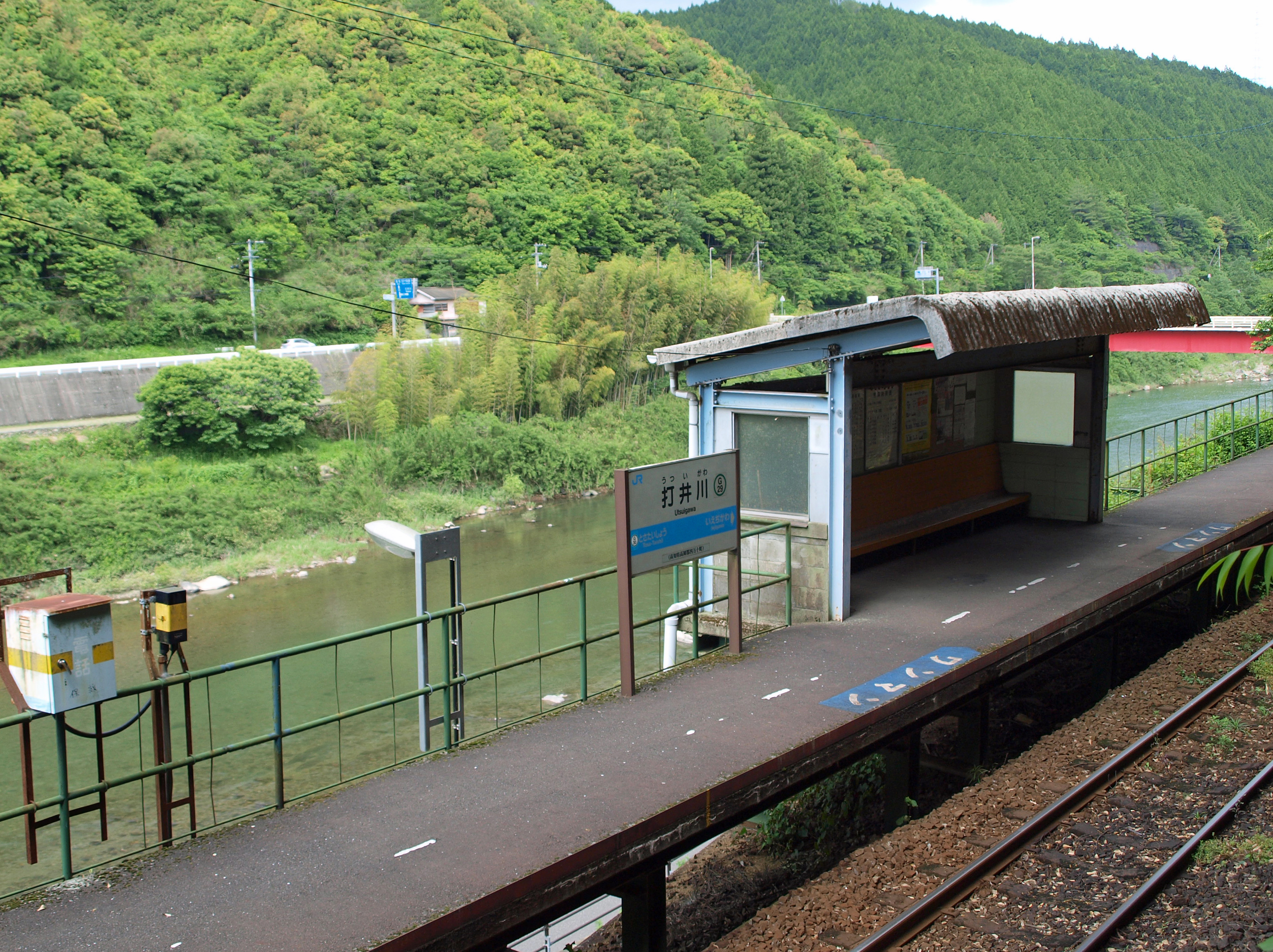 Utsuigawa station, Yodo-line, JR Shikoku, Japan